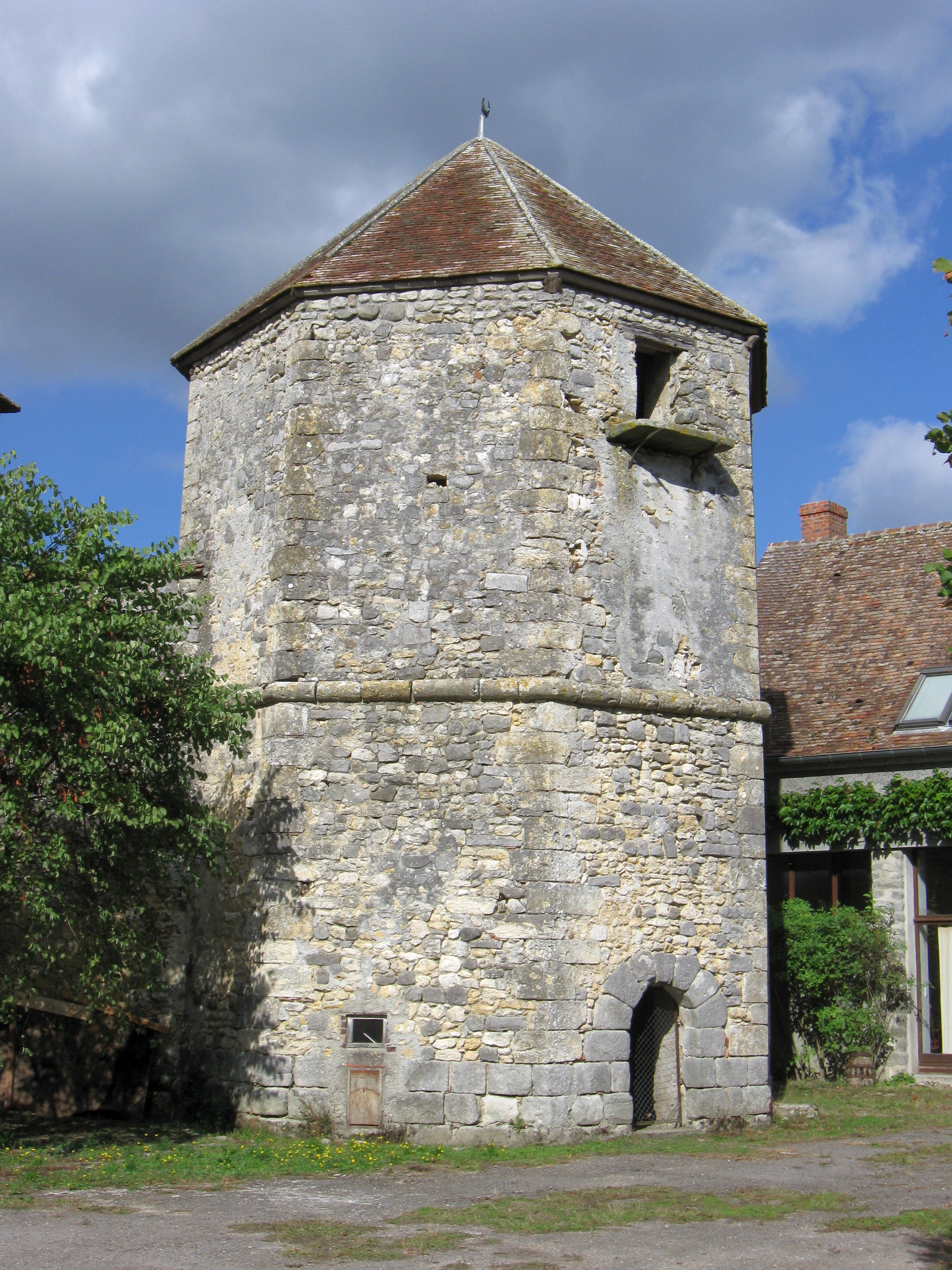 Dovecote tower - Farm of Chapître. (Larchant, Seine-et-Marne, Île-de-France).